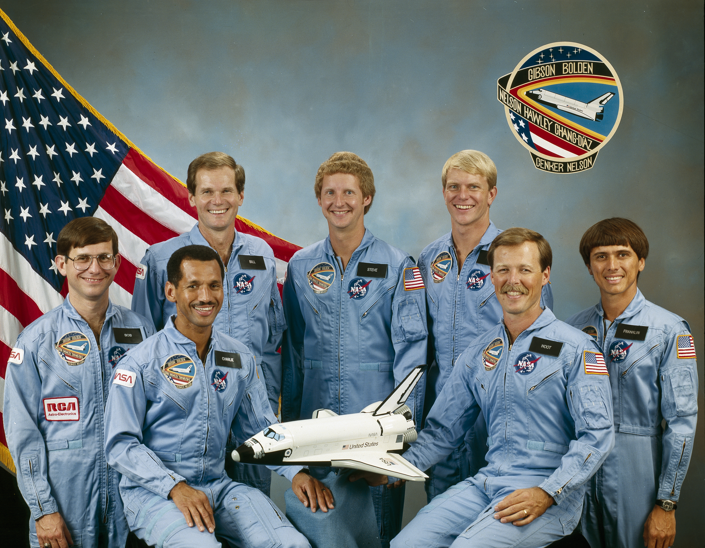 The crew assigned to the STS-61C mission included (seated left to right) Charles F. Bolden, Jr., pilot; and Robert L. (Hoot) Gibson, commander. On the back row, left to right, are payload specialists Robert J. Cenker, and Congressman Bill Nelson. To the right of Nelson are mission specialists Steven A. Hawley, George D. Nelson, and Franklin R. Chang-Diaz. Launched aboard the Space Shuttle Columbia on January 12, 1986 at 6:55:00 am (EST), the STS-61C mission's primary payload was the communications satellite SATCOM KU-1 (RCA Americom).